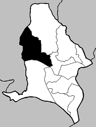 Location of Mina parish in Amadora municipality. Map created by Brian Boru in December 2005.